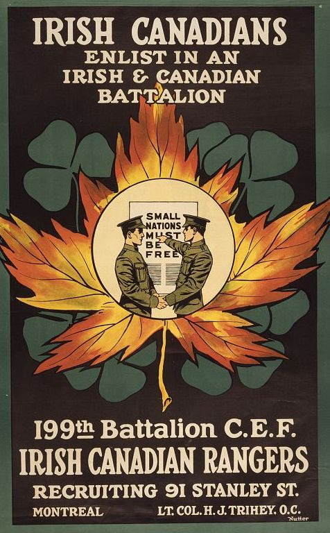 Recruitment poster directed at Canadians of Irish descent. "Irish Canadians enlist in an Irish & Canadian battalion - 199th Battalion C.E.F. [Canadian Expeditionary Force] - Irish Canadian Rangers - Recruiting 91 Stanley St. - Montreal, Lt. Col. J.J. Trihey, O.C." Image shows two soldiers with a sign that reads "small nations must be free".